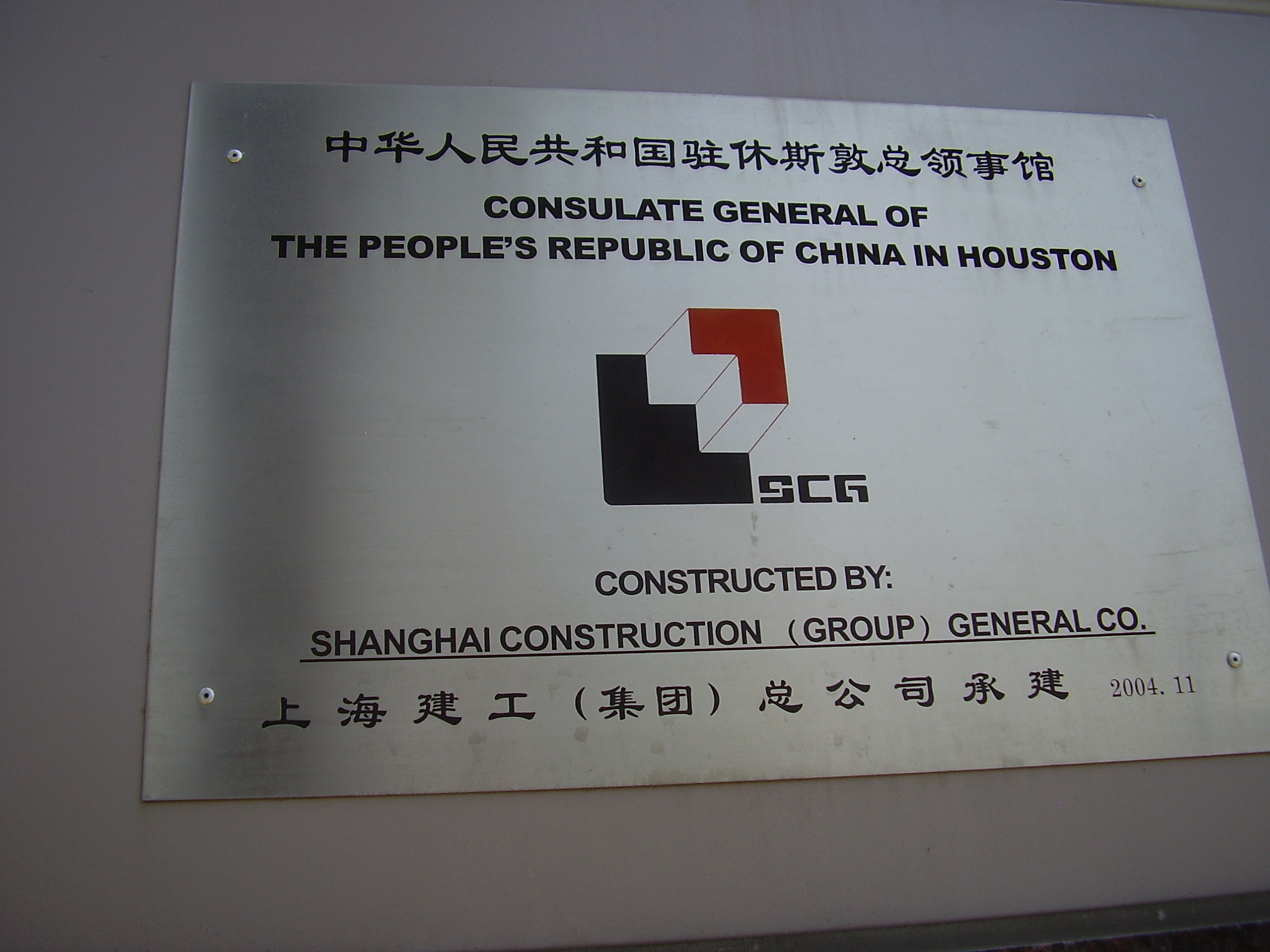 Consulate-General of the People's Republic of China in Houston sign